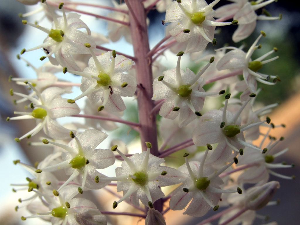 Drimia maritima, Urginea maritima, Maritime squill